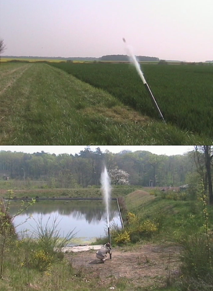 Dry ice cannon in use